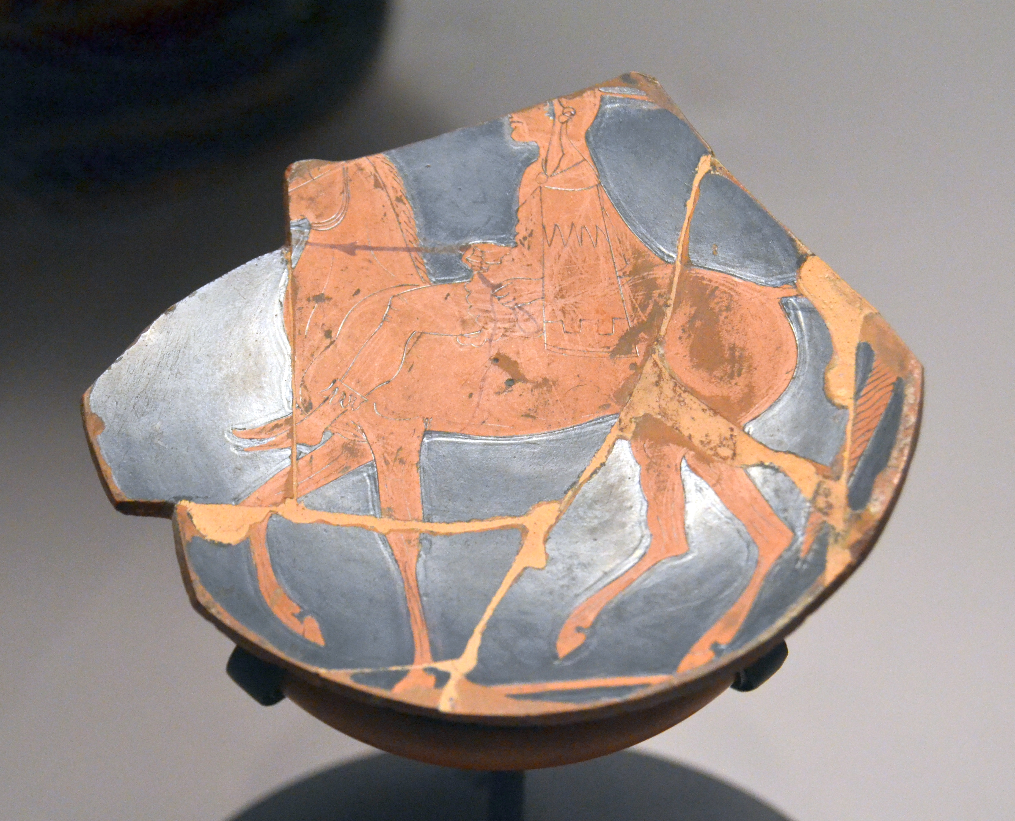 Drinking cup (kylix) Painter: Hermaios Painter (attributed by John D. Beazley) Potter: Hermaios Greek Late Archaic Period about 520–510 B.C. Place of Manufacture: Greece, Attica, Athens Medium/Technique Ceramic, Red Figure Dimensions Height: 3.8 cm (1 1/2 in.); diameter: 9.8 cm (3 7/8 in.) Credit Line Bartlett Collection—Museum purchase with funds from the Francis Bartlett Donation of 1900 Accession Number 03.844 CollectionsThe Ancient World ClassificationsVessels Catalogue Raisonné Caskey-Beazley, Attic Vase Paintings (MFA), no. 010. DescriptionA youth in Thracian costume: animal-skin boots, chiton, embroidered chlamys, and hood with long lappets - riding a horse to left. Greek inscription in purple by the potter (beginning on the bottom edge of the tondo by the horse's front legs): "Hermaios made [it]" (HE[R]MA[IOS EPOIESE]N). Condition: Cup was cut down to size of interior tondo. Part of that and of foot missing. Signed by the potter: "Hermaios made [it]" (HE[R]MA[IOS EPOIESE]N) Inscriptions"Hermaios made [it]" (HE[R]MA[IOS EPOIESE]N) ΗΕ[Ρ]ΜΑ[ΙΟS ΕΠΟΙΕSΕ]Ν ProvenanceBy 1903: with Edward Perry Warren (according to Warren's records: Bought in Rome.); purchased by MFA from Edward Perry Warren, March 24, 1903 Online Database of the Beazley Archive Online Catalogue of the Museum of Fine Arts, Boston